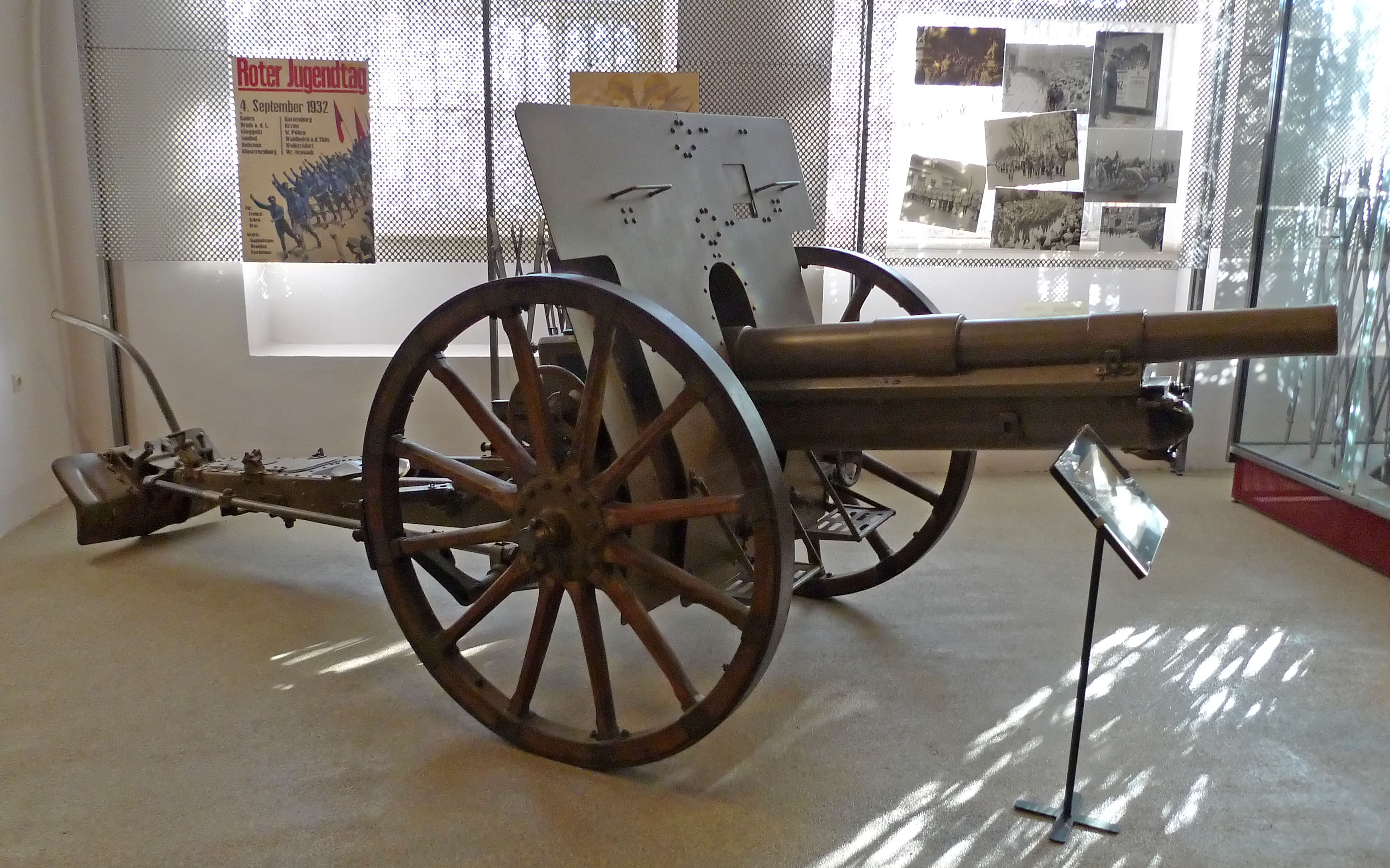 8 cm Feldkanone M 18, a field gun used by Austria-Hungary during World War I, at the Heeresgeschichtliches Museum Wien.